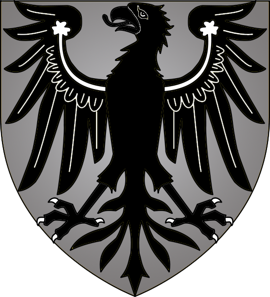 Coat of arms of the municipality of Echternach, Luxembourg